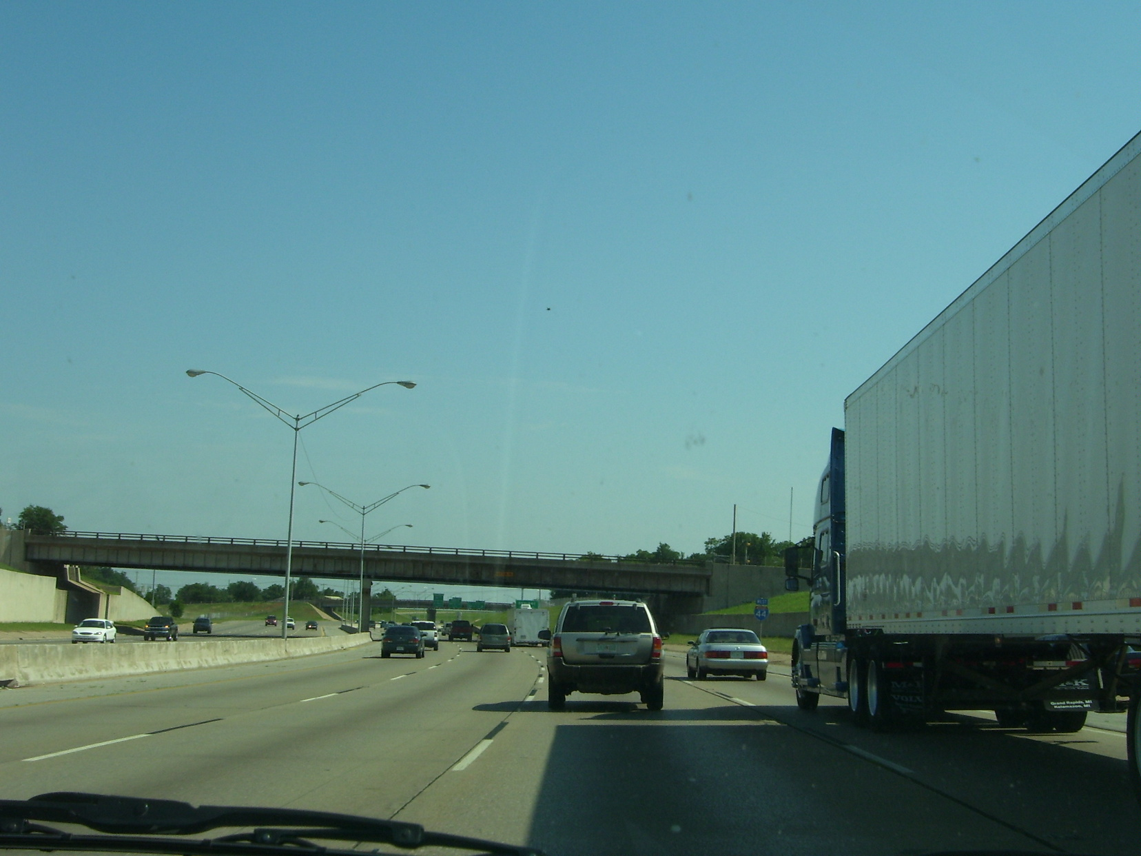 Interstate 44 in Oklahoma City, Oklahoma.